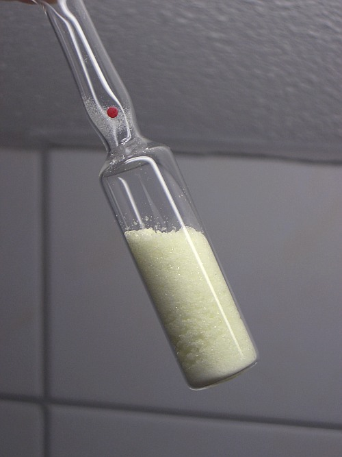 Phosphorus(V) chloride crystals in an ampoule